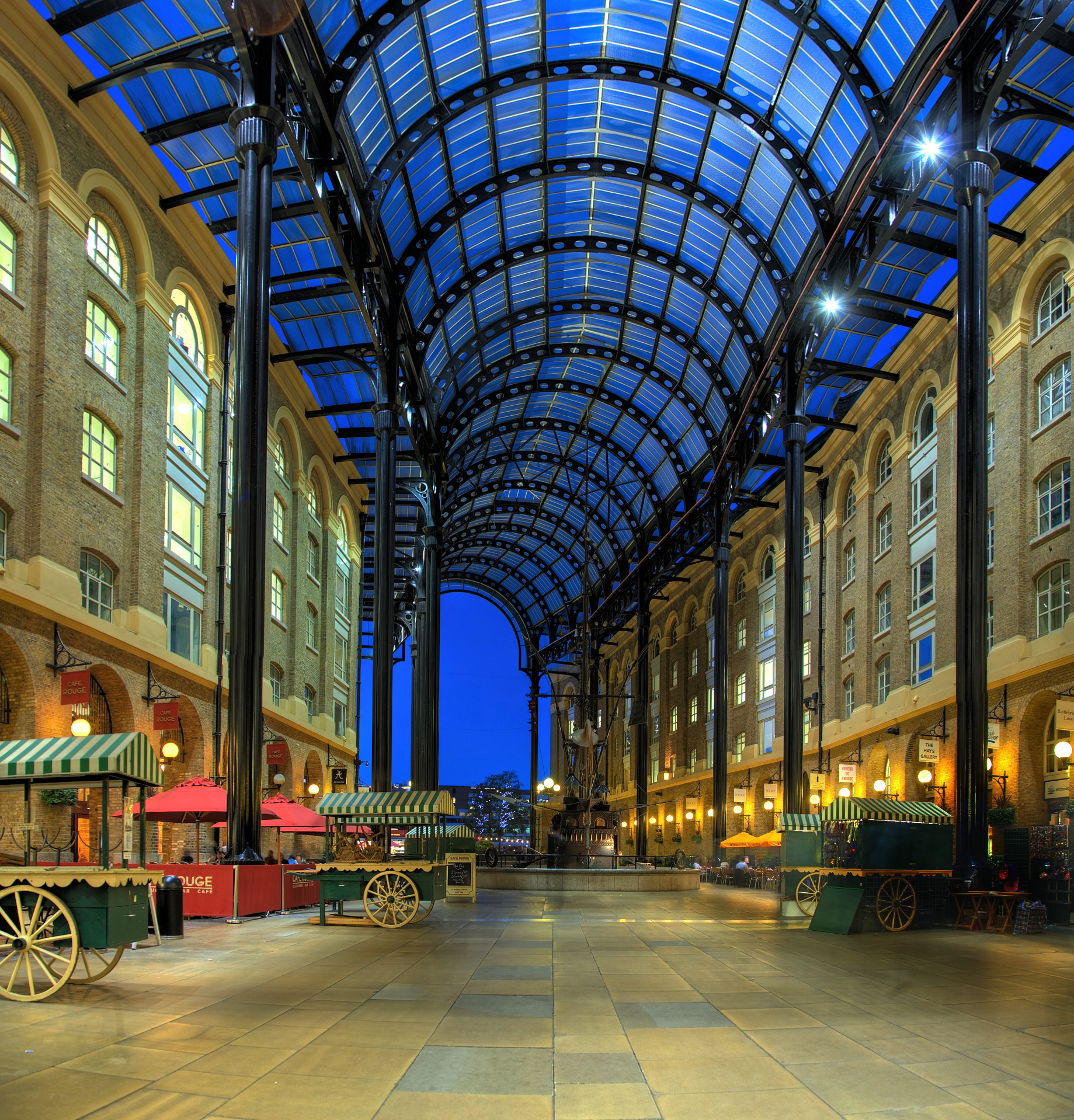 A perspective corrected view of Hay's Galleria in Southwark, London, United Kingdom. Taken by myself with a Canon 5D and 24-105mm f/4L IS lens.